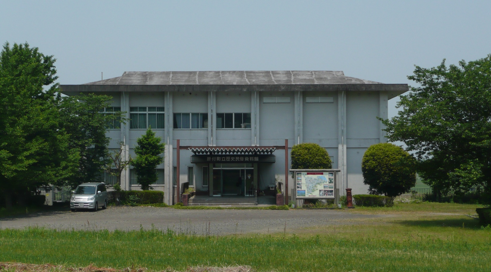 Kimotsuki Town Museum